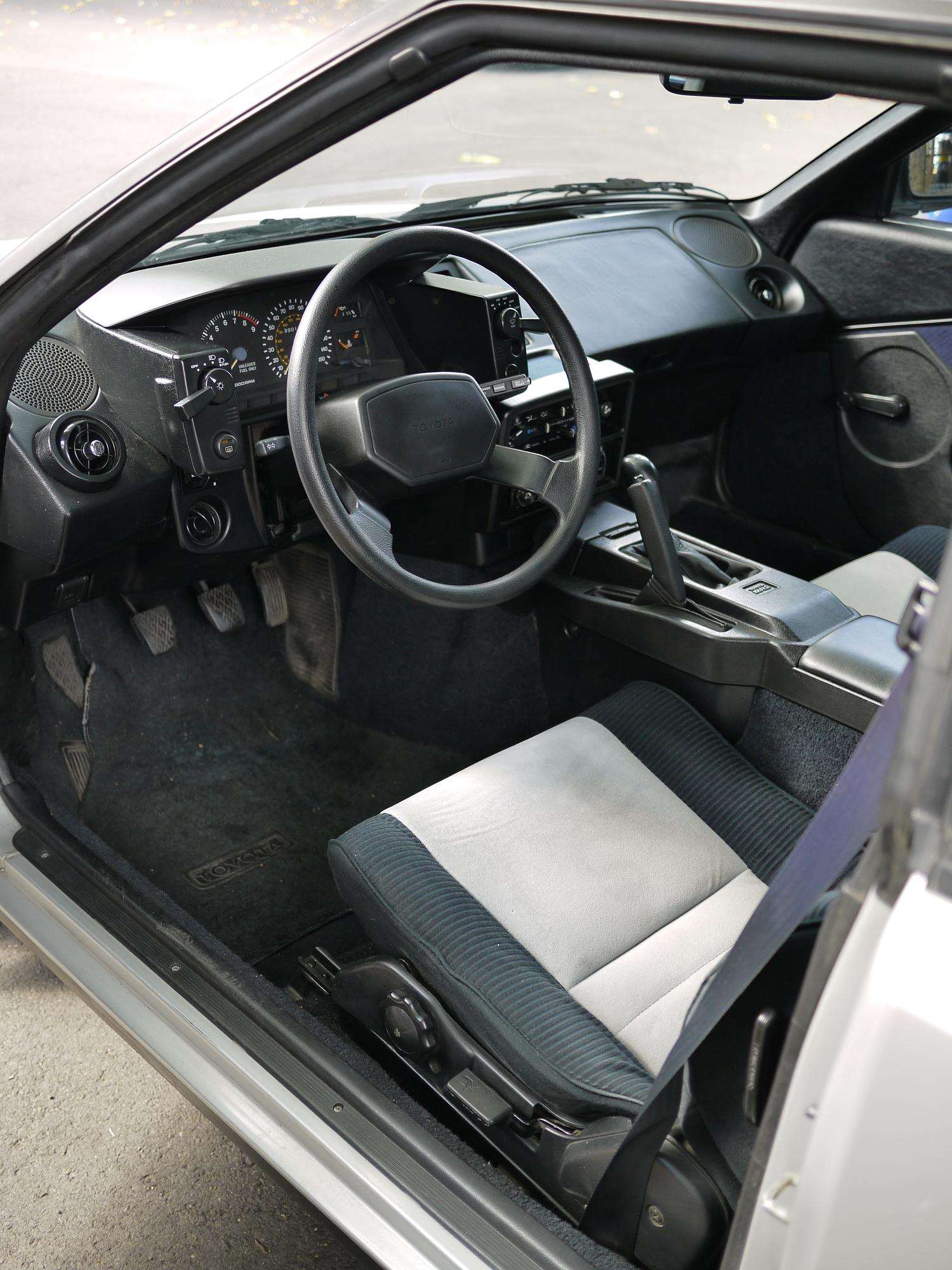 Interior of a 1985 Toyota MR2